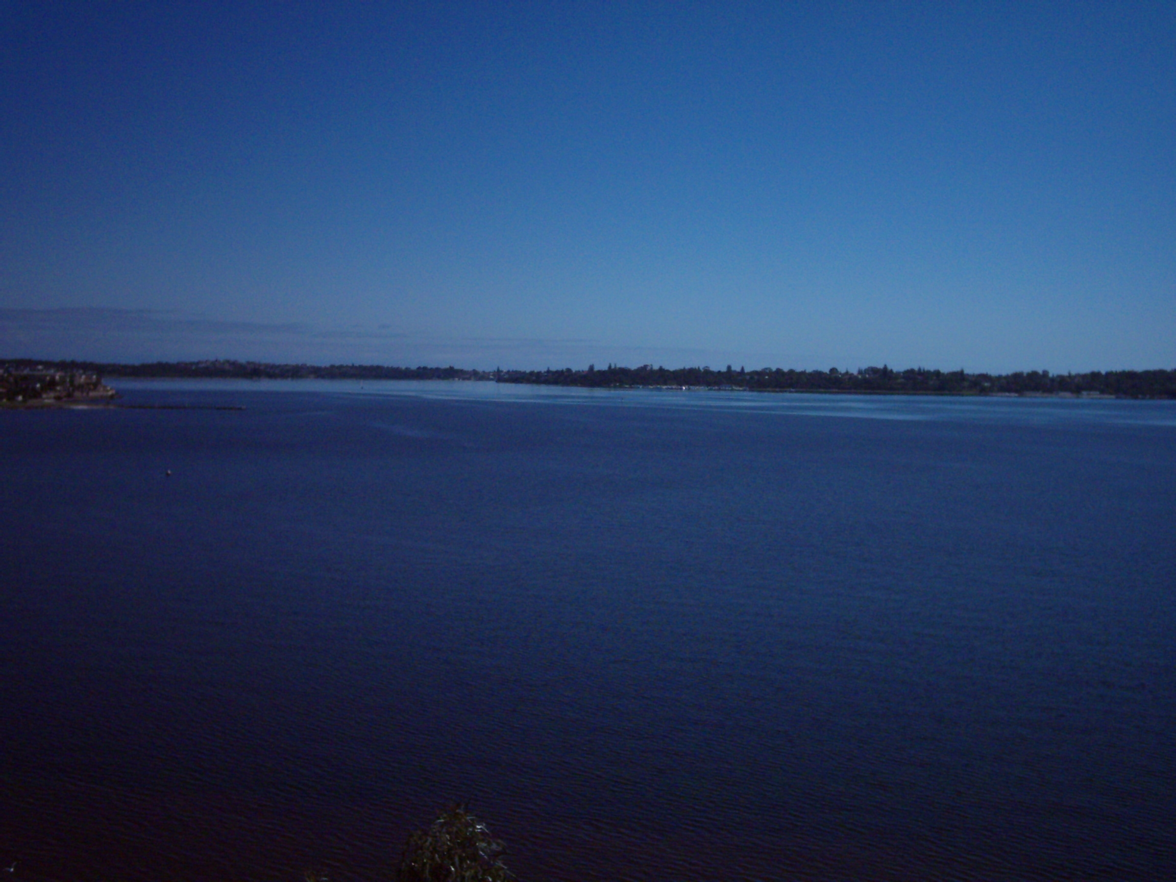 Melville water viewed from the former Heathjcote hospital site now challenger tafe.